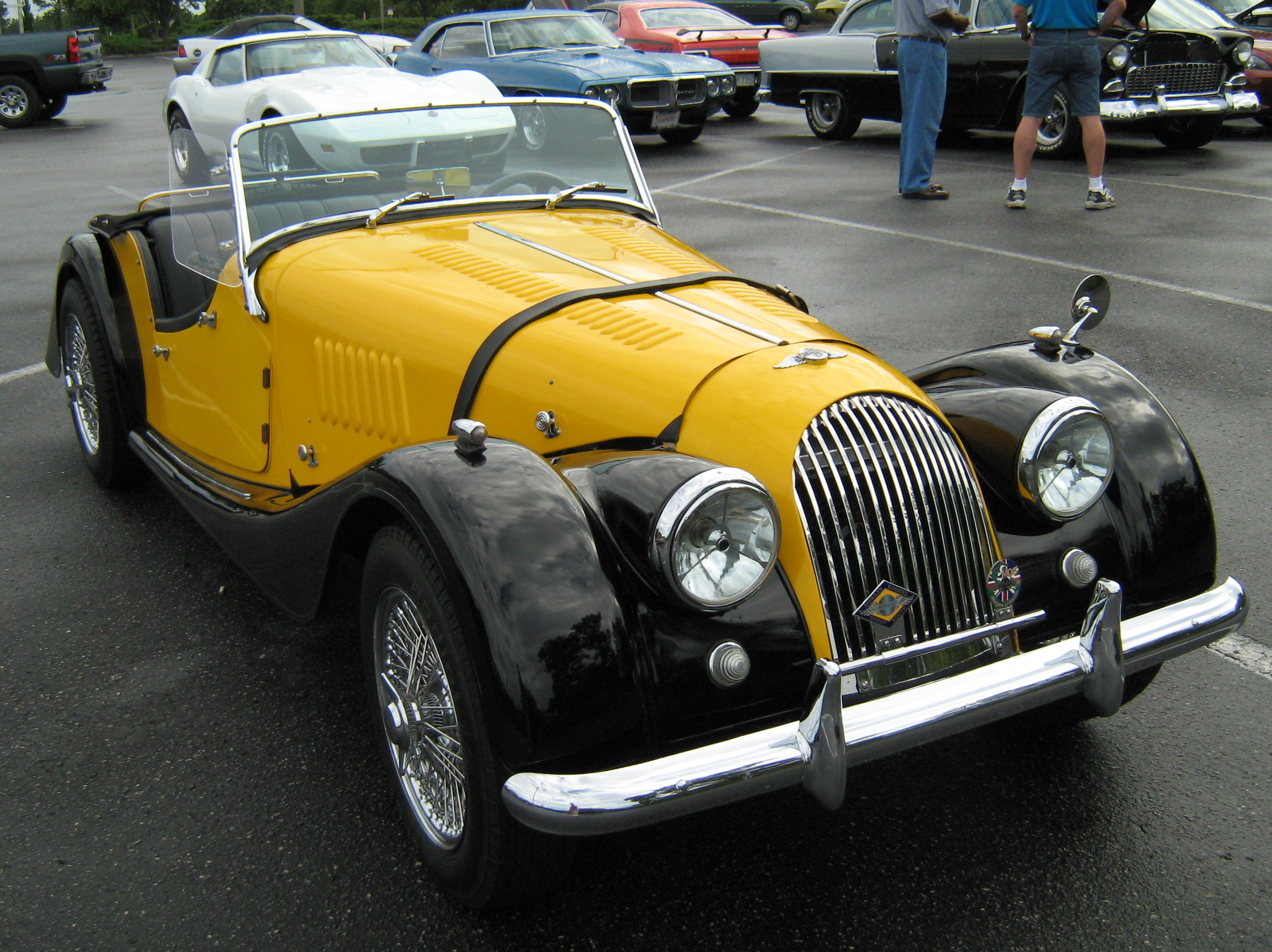 1963 Morgan - front